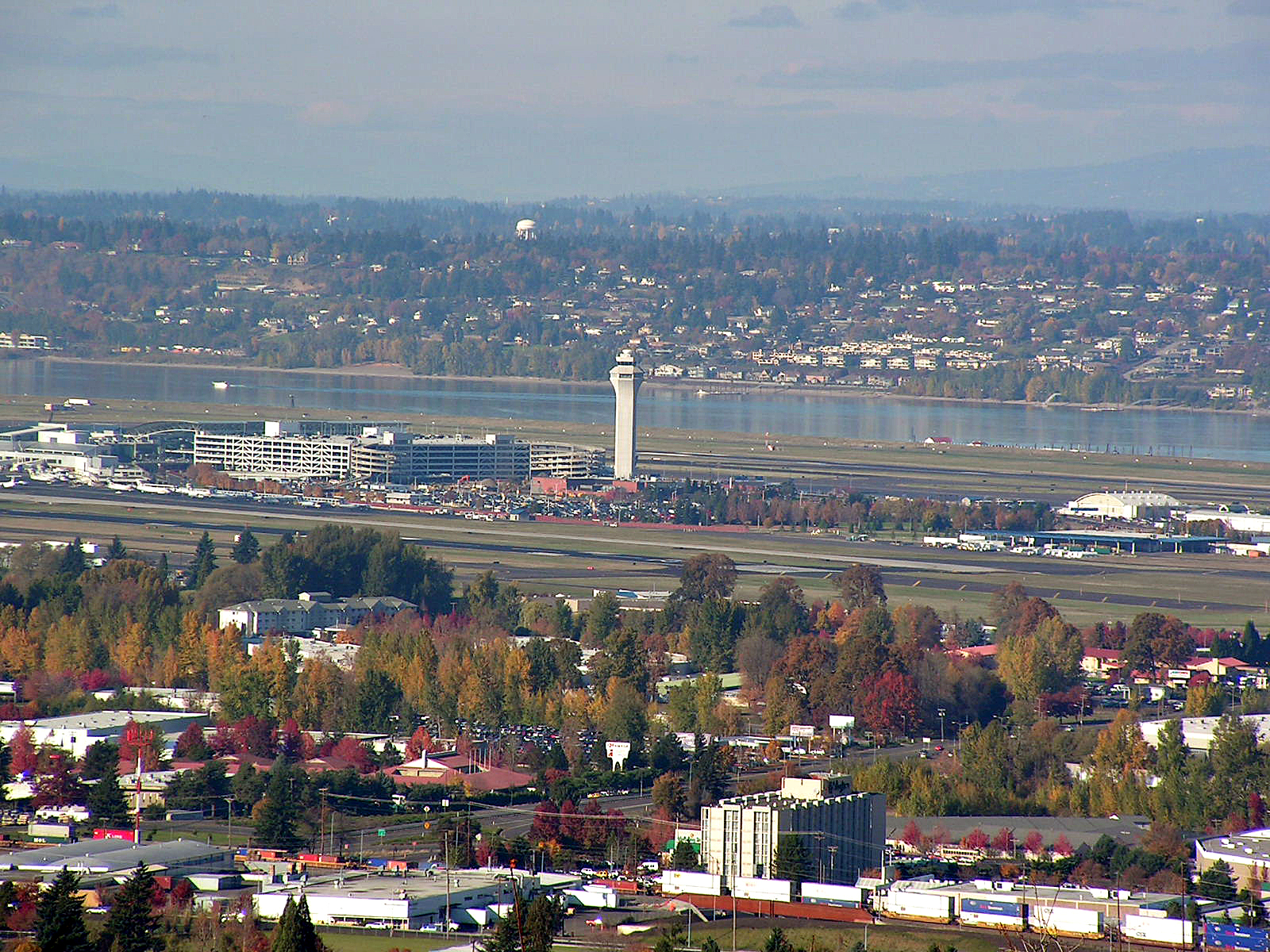 View of PDX airport from atop Rocky Butte in Portland. The Columbia River and Vancouver, Washington, are in the background.